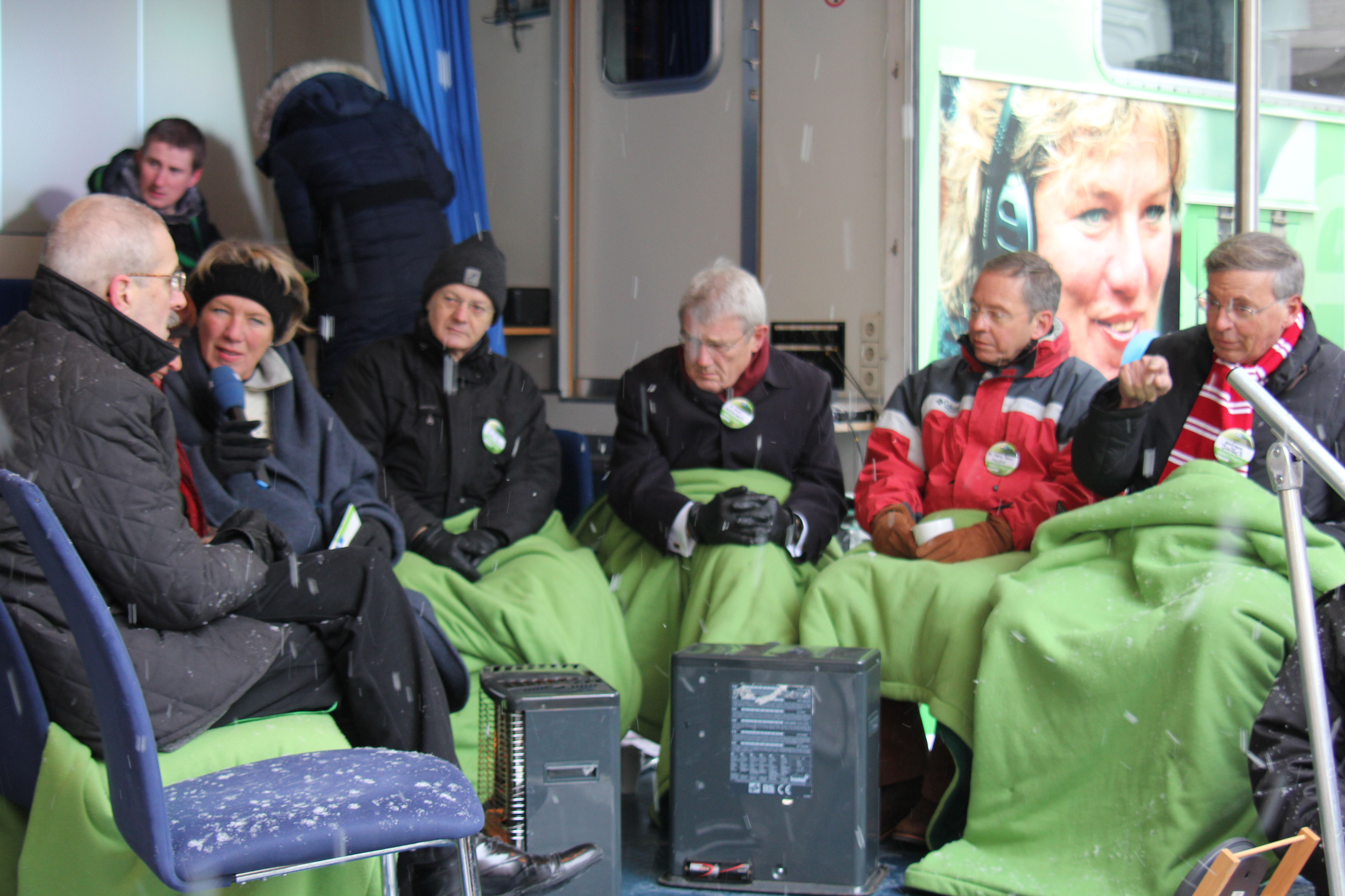 Radioshow "Hallo Ü-Wagen" in Cologne, Germany